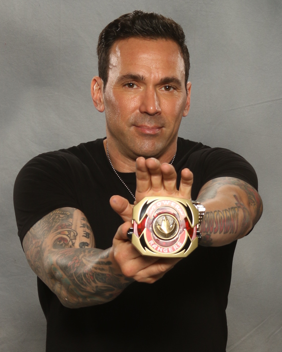 Jason David Frank at the Raleigh Supercon in 2017